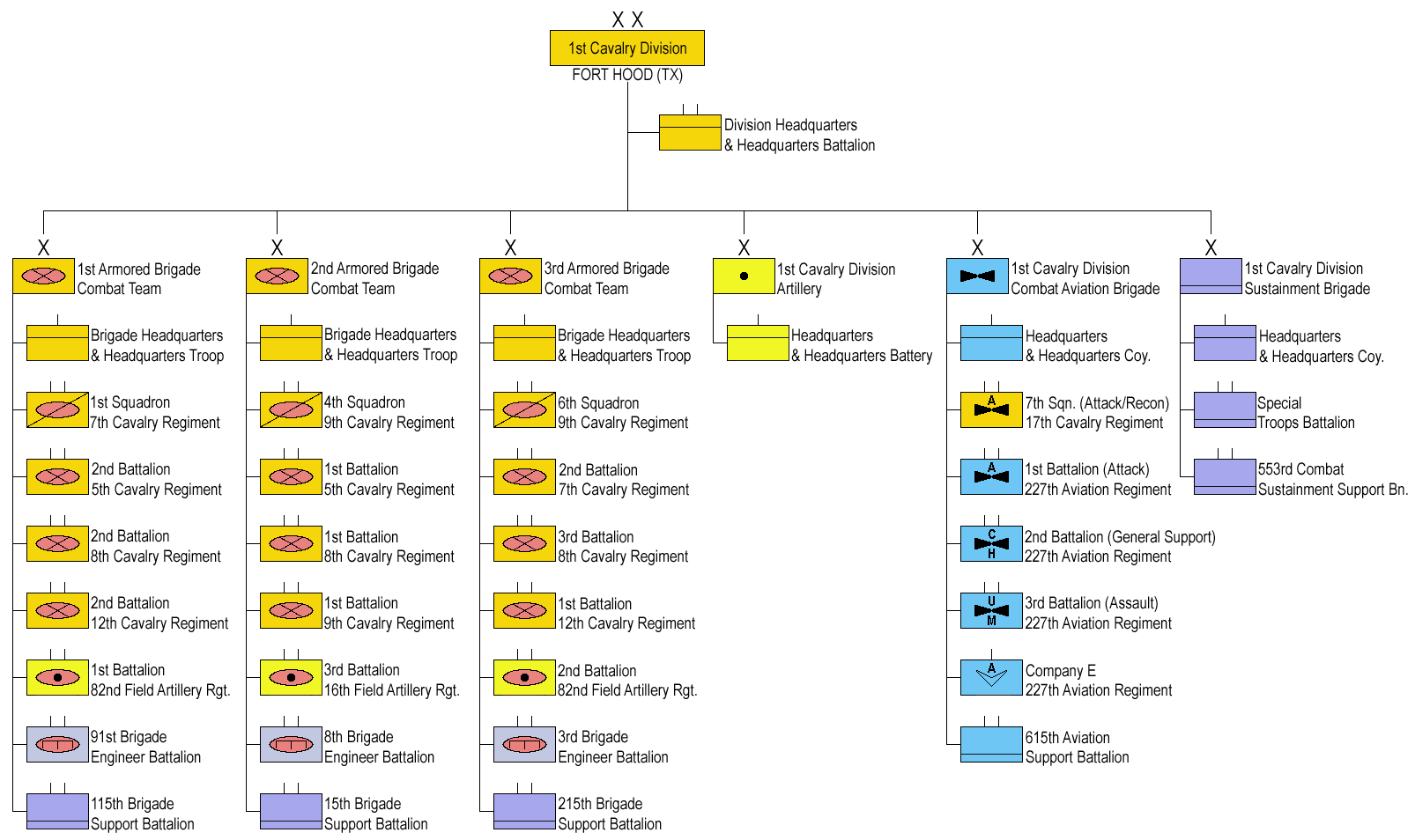 US Army 1st Cavalry Division Structure 2016